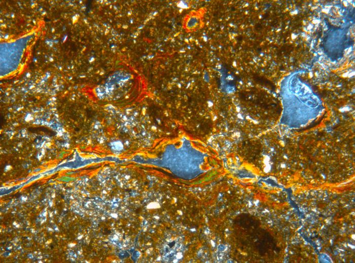 Microphotography of a clay coating in an Italian Alfisol. Cross polarised light; frame 1 cm